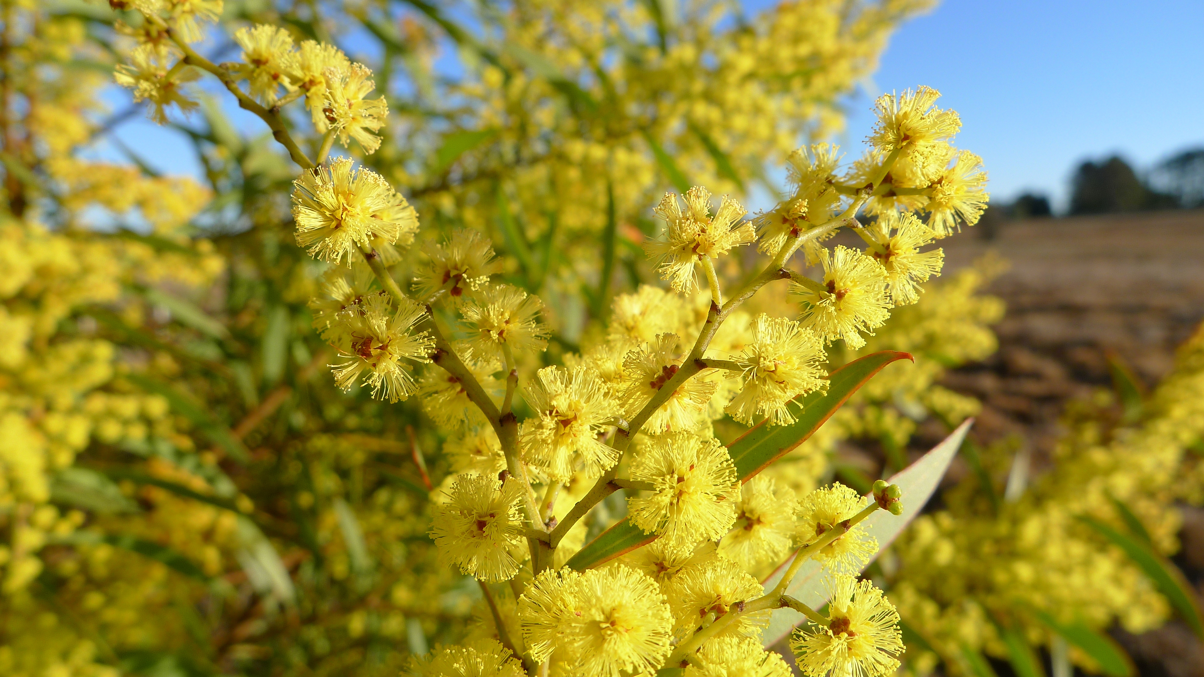 Red-stemmed Wattle, Acacia rubida, flowers. Gundaroo Common, Gundaroo NSW Australia, August 2013.